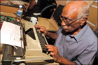 Premil Ratnayake doing what he always likes to do. (4th Dec 2009)